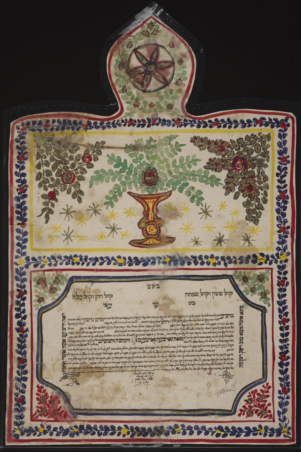 A traditional illustrated ketubah (Jewish marriage contract).